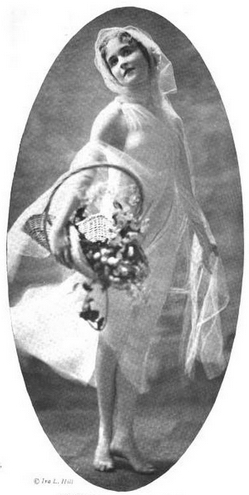 Florence O'Denishawn, from a 1918 publication. A young white woman standing barefoot in a gauzy white tunic and headwrap, carrying a basket of flowers.